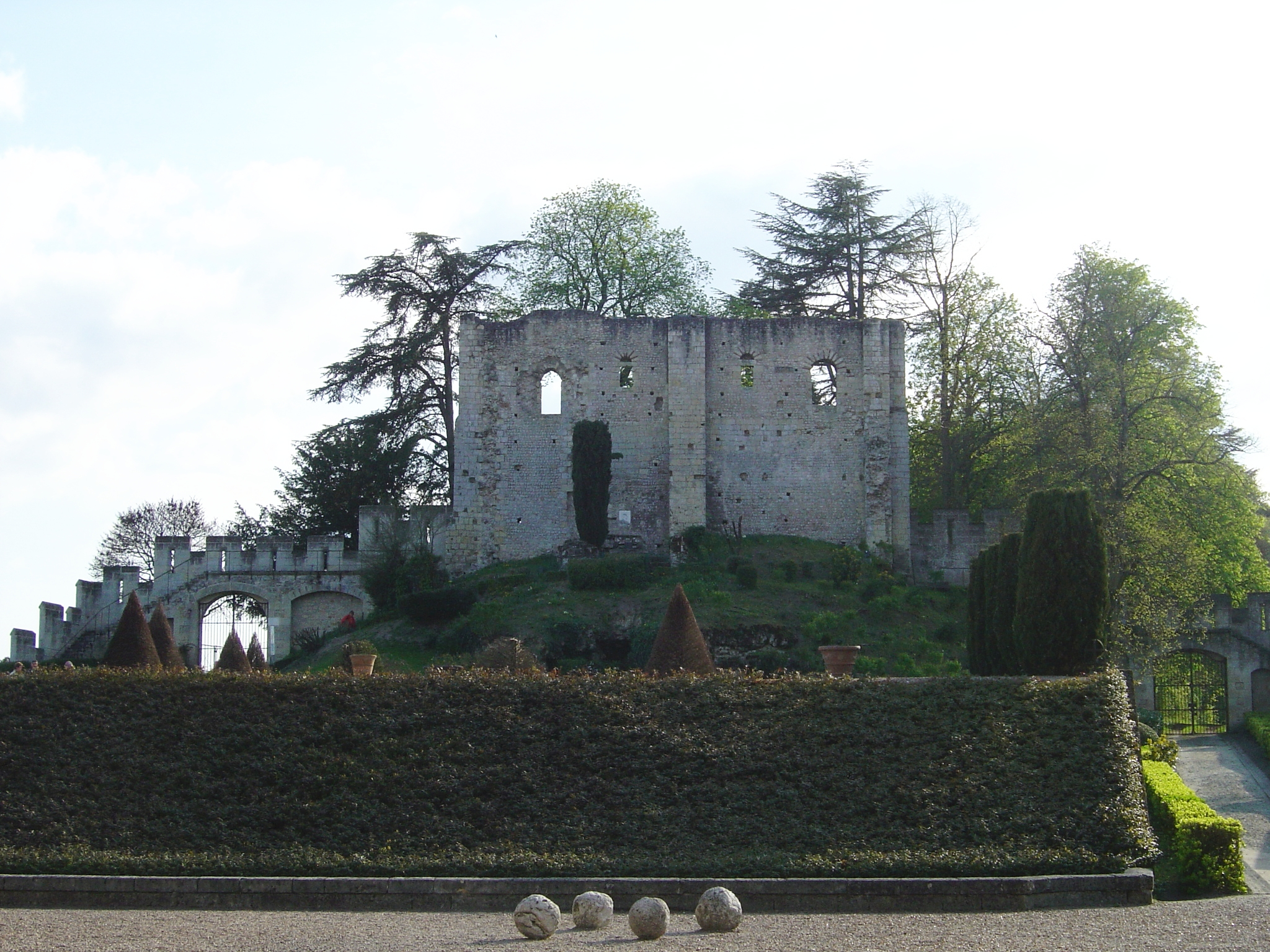 Château de Langeais (France) Restes de l'ancienne forteresse du Xe siècle Ruins of the old fortress (10th century) I took this photo in april 2006